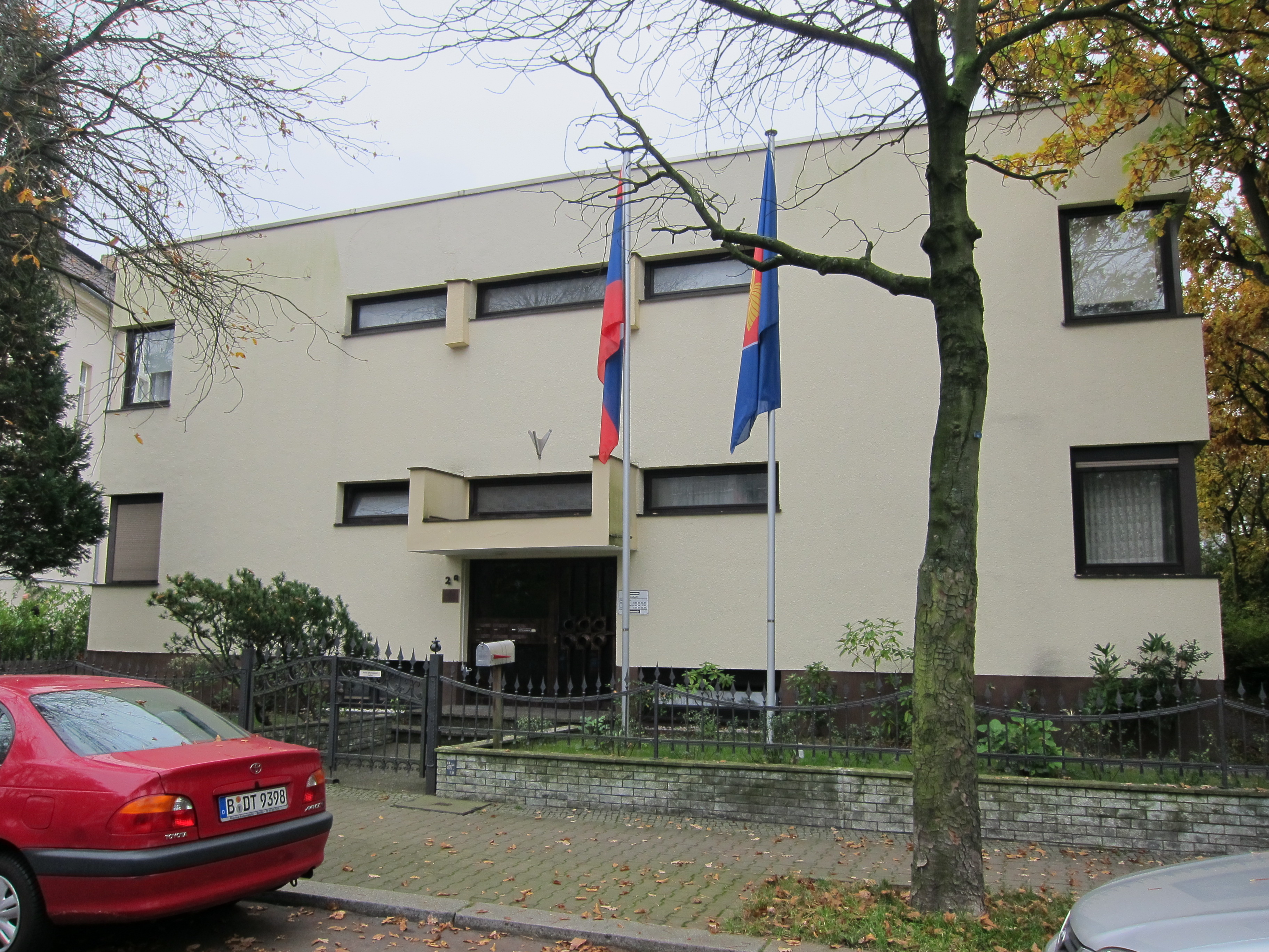 Exterior of the Embassy of Laos in Berlin, Germany